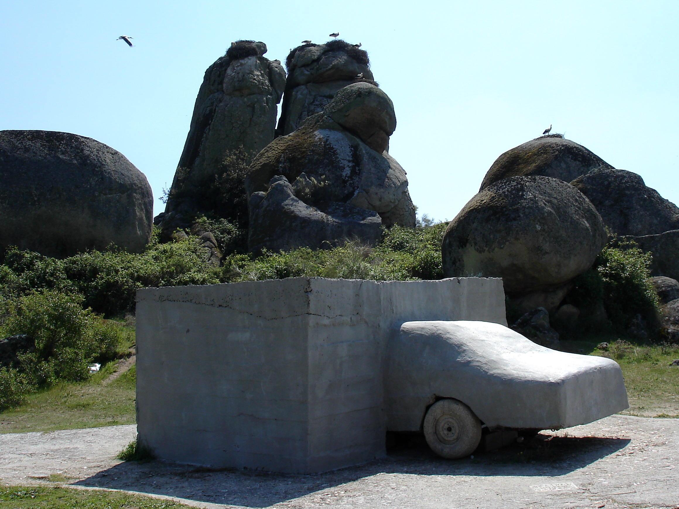 Photographer: MichaÃ«l de Vos Location: Malpartida de CacÃ©res, Extremadura, Spain Work of art by Wolf Vostell